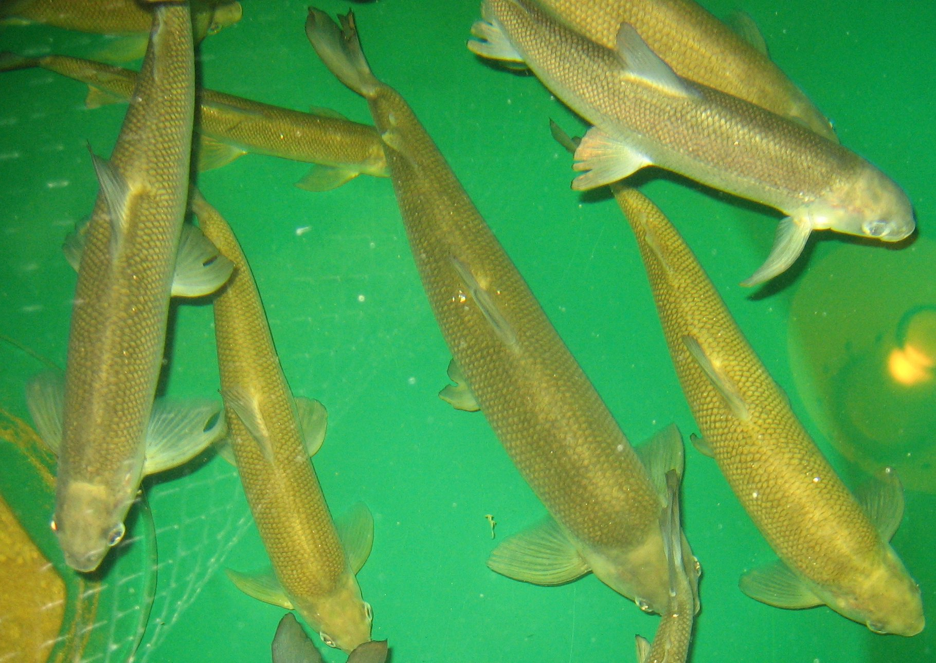 Lake whitefish (Coregonus clupeaformis)